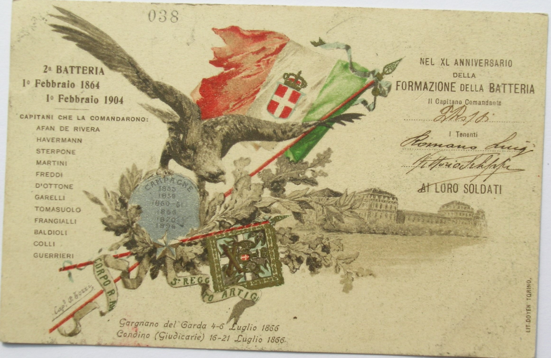 italian 5 FA regiment post card